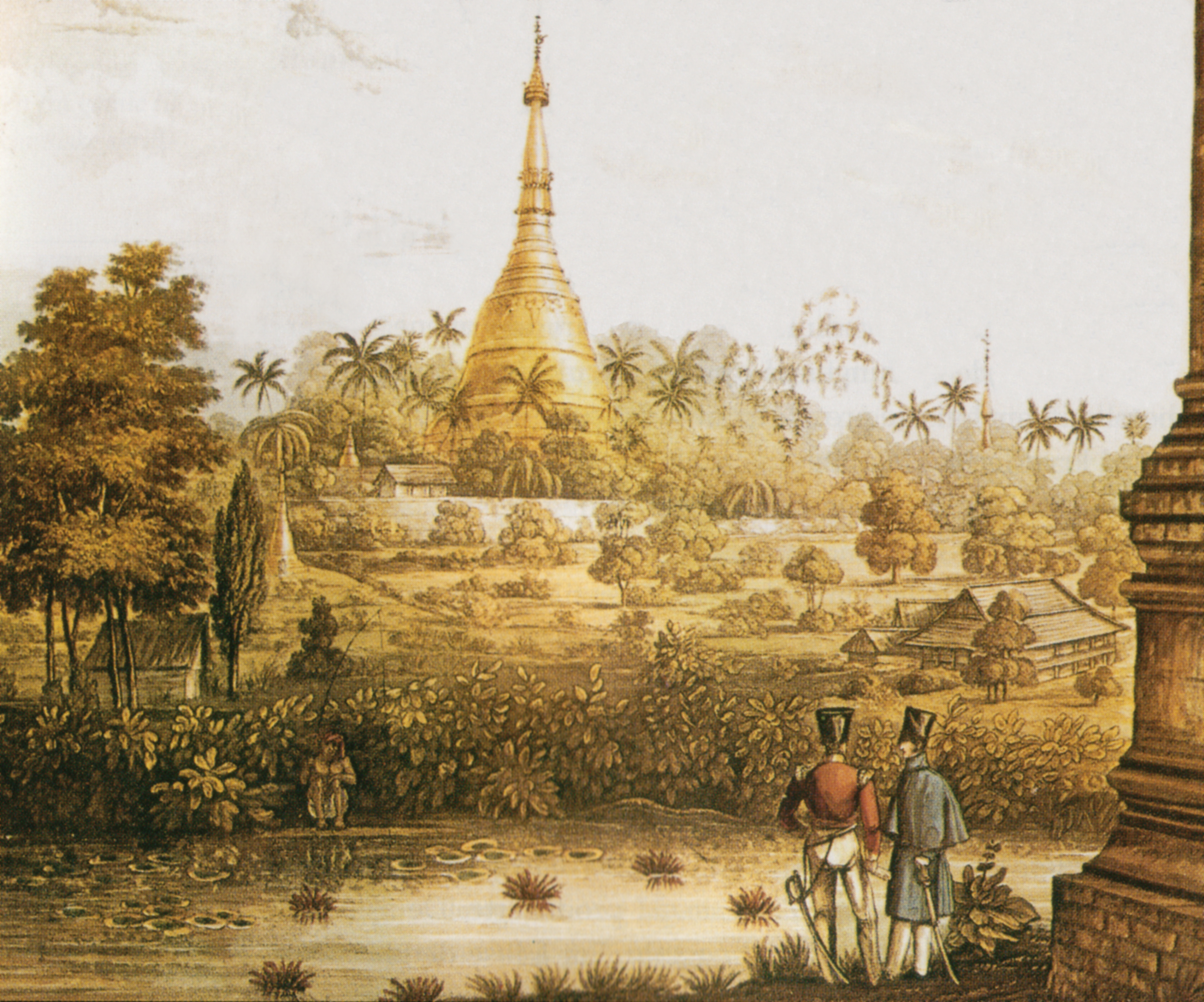 1825 Litography of Shwedagon Pagoda.